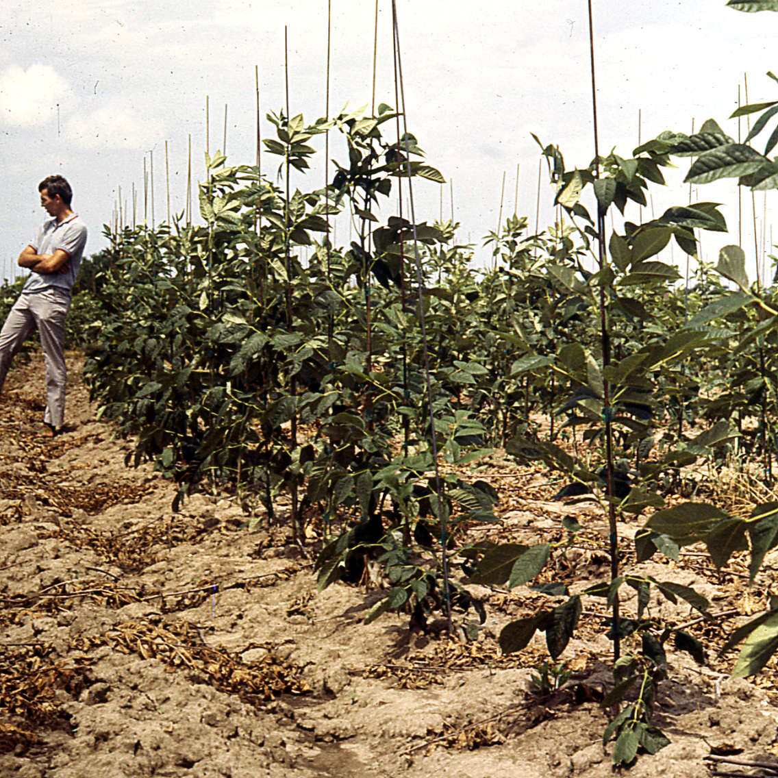 Fraxinus americana 'AUTUMN PURPLE' one year old